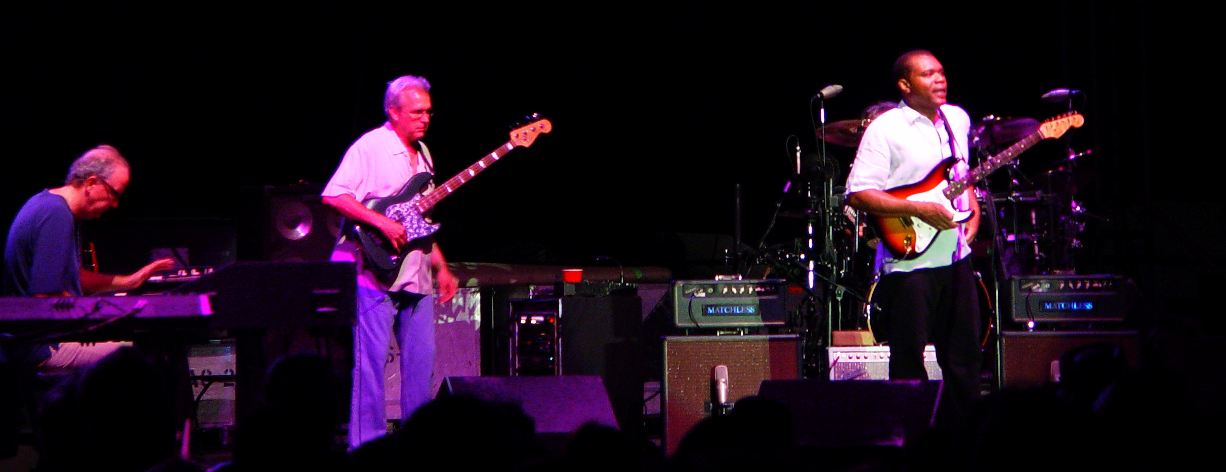 The Robert Cray band performing at a jazz festival in 2007